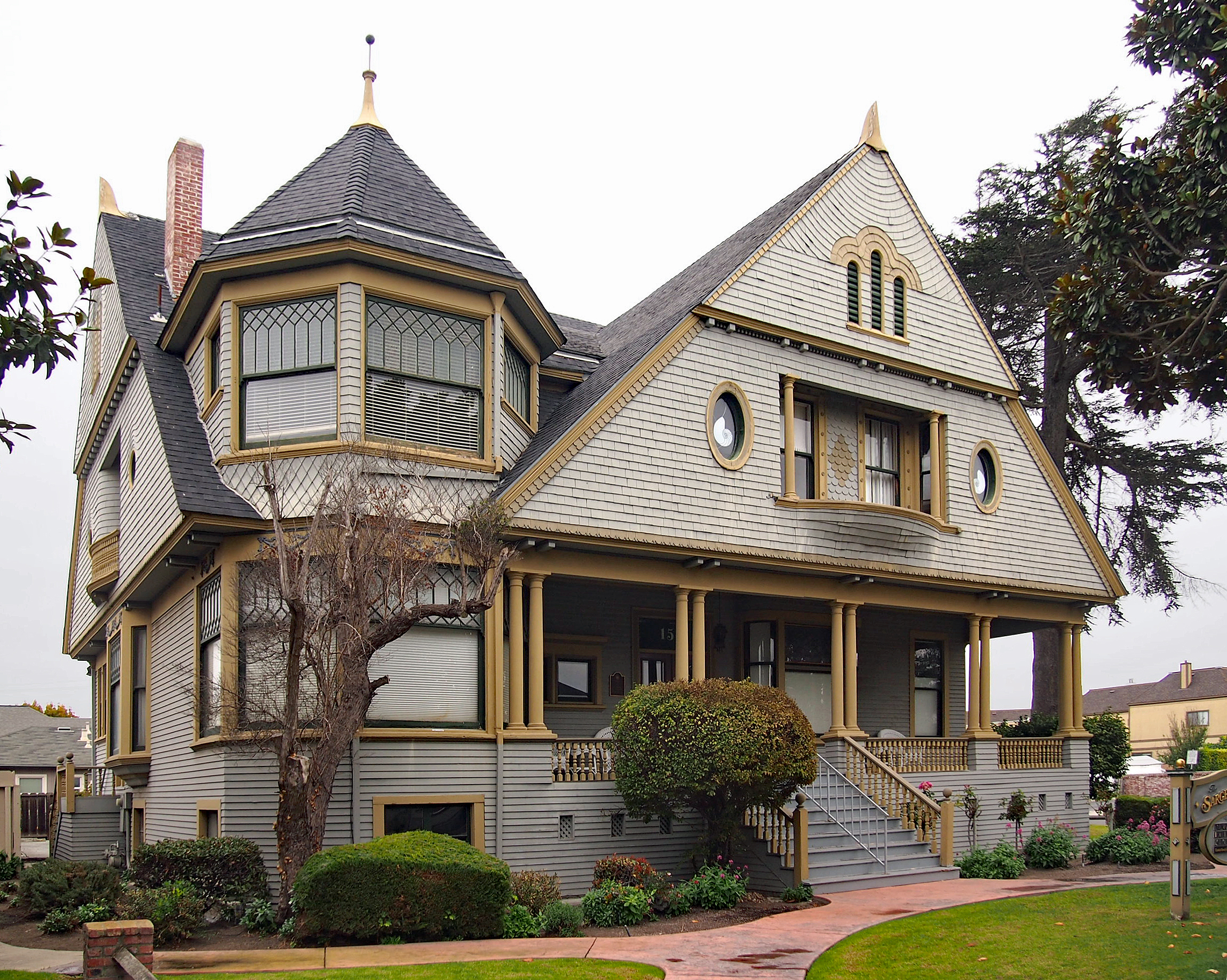 B.V. Sargent House, 154 Central Ave, Salinas, California, USA. Viewed from the south.